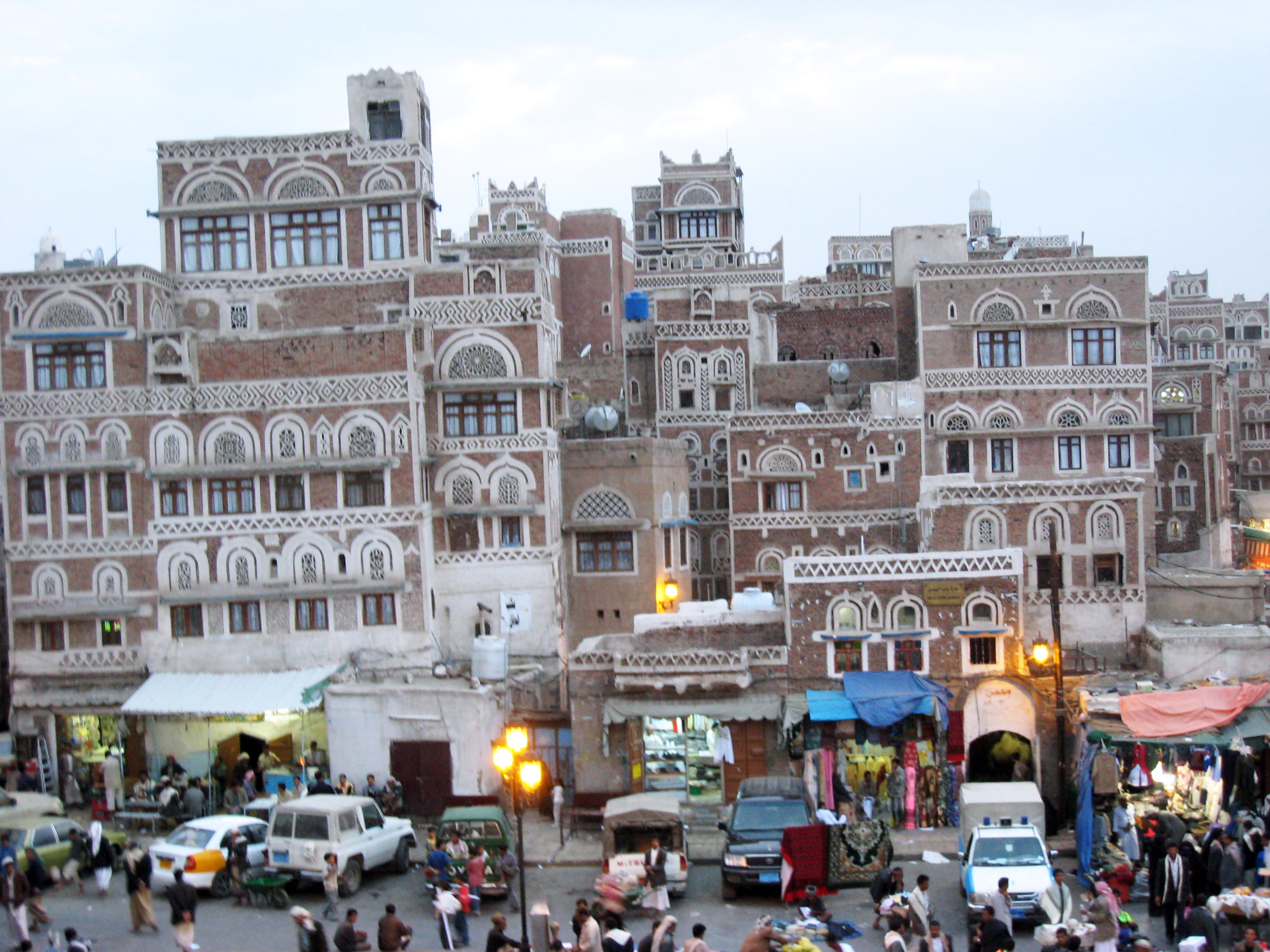 Sana'a, Yemen; city center, 2007-09-08